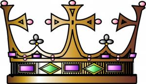 Vidam Crown